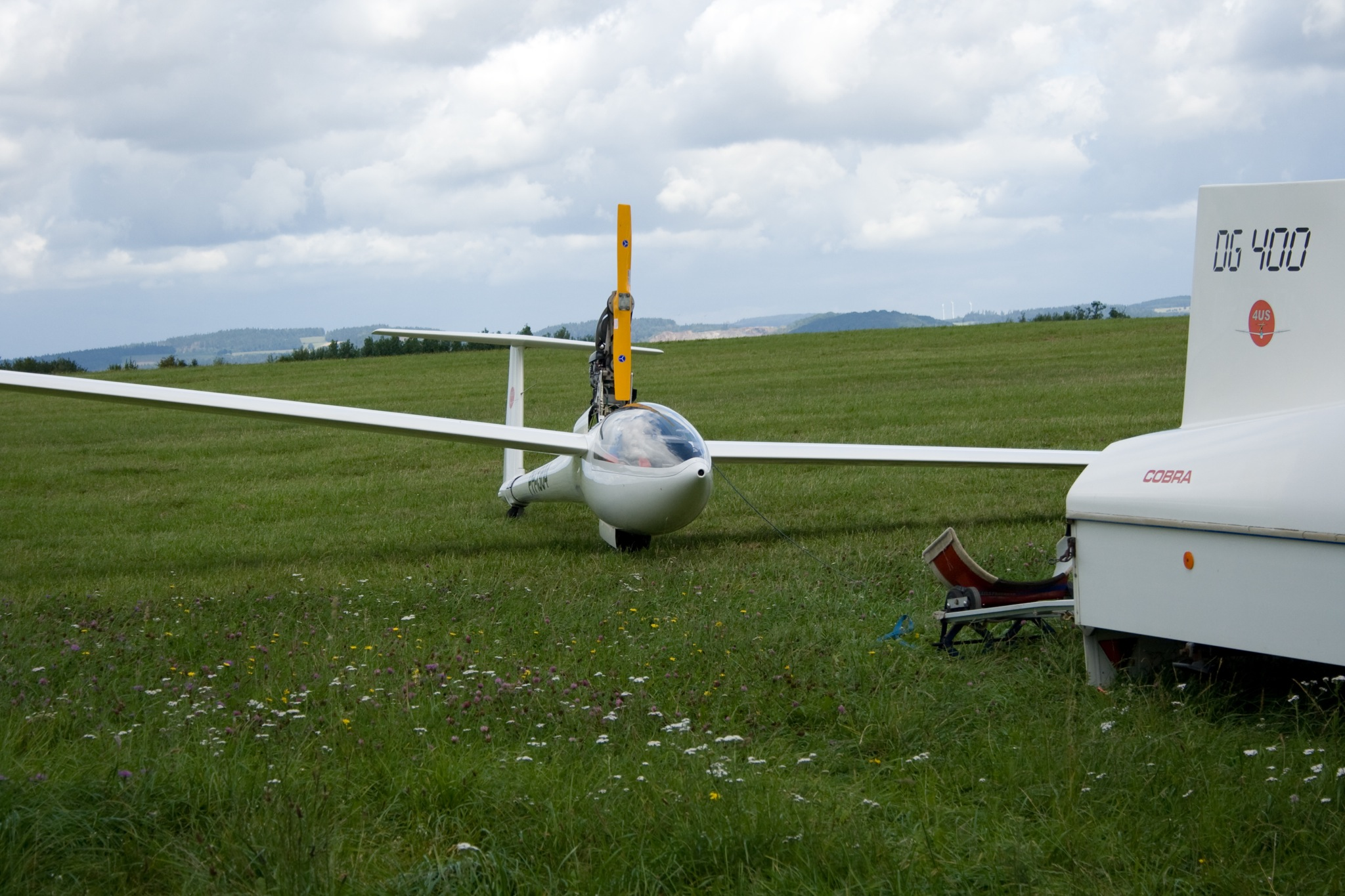 (near Bayreuth)